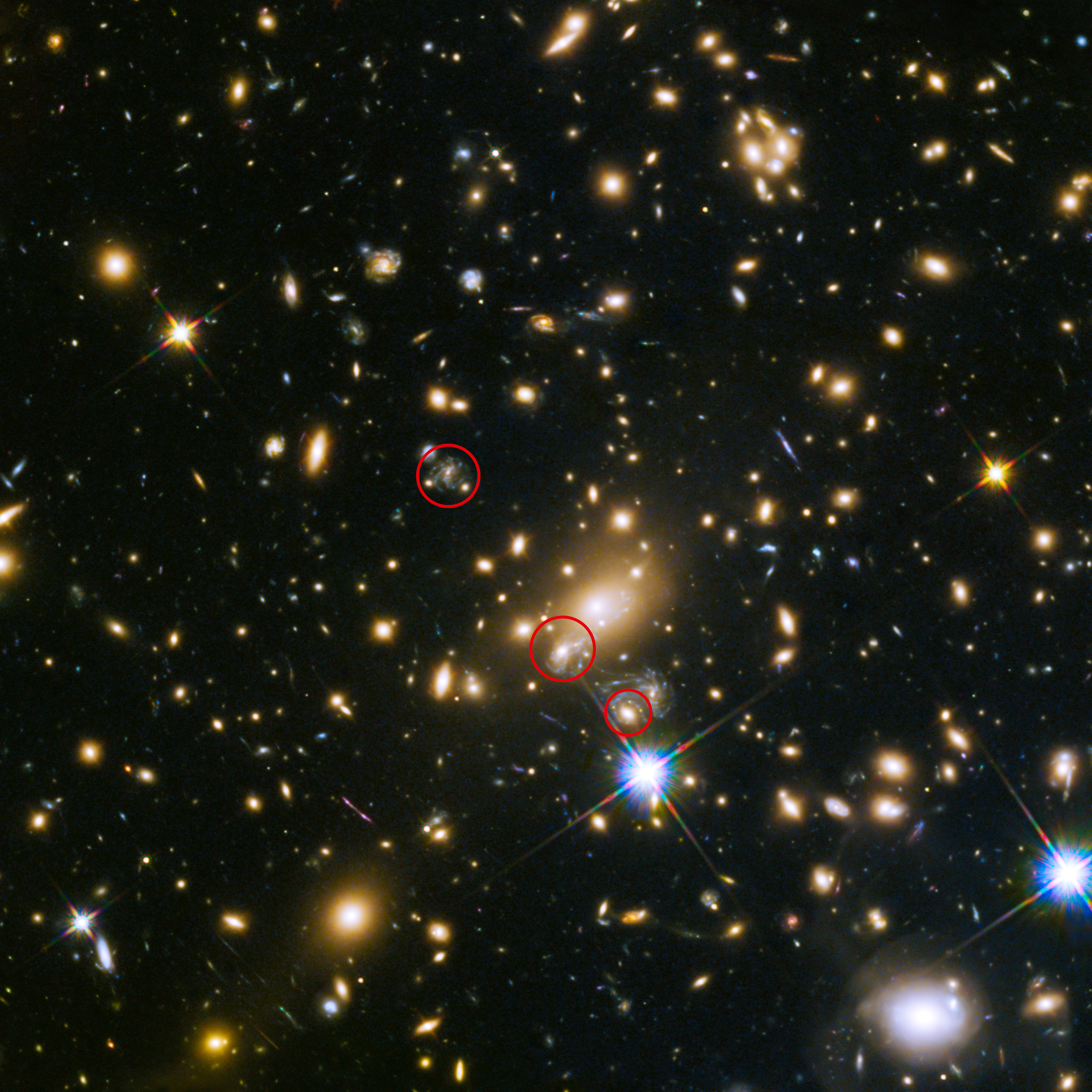 This NASA/ESA Hubble Space Telescope image shows the positions of the past, present and predicted future appearances of the Refsdal supernova behind the galaxy cluster MACS J1149+2223. The uppermost circle shows the position of the supernova as it could have been seen in 1995 (but was not actually observed). The lowermost circle shows the galaxy which lensed the Refsdal Supernova to produce four images — a discovery made in late 2014. The middle circle shows the predicted position of the reappearing supernova in late 2015 or early 2016.